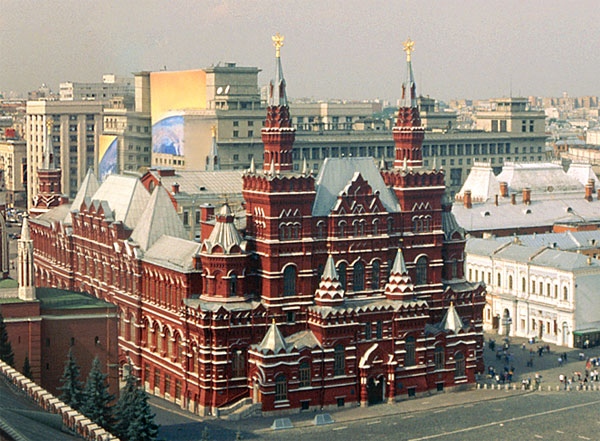 Moscow, the Kremlin. State History Museum